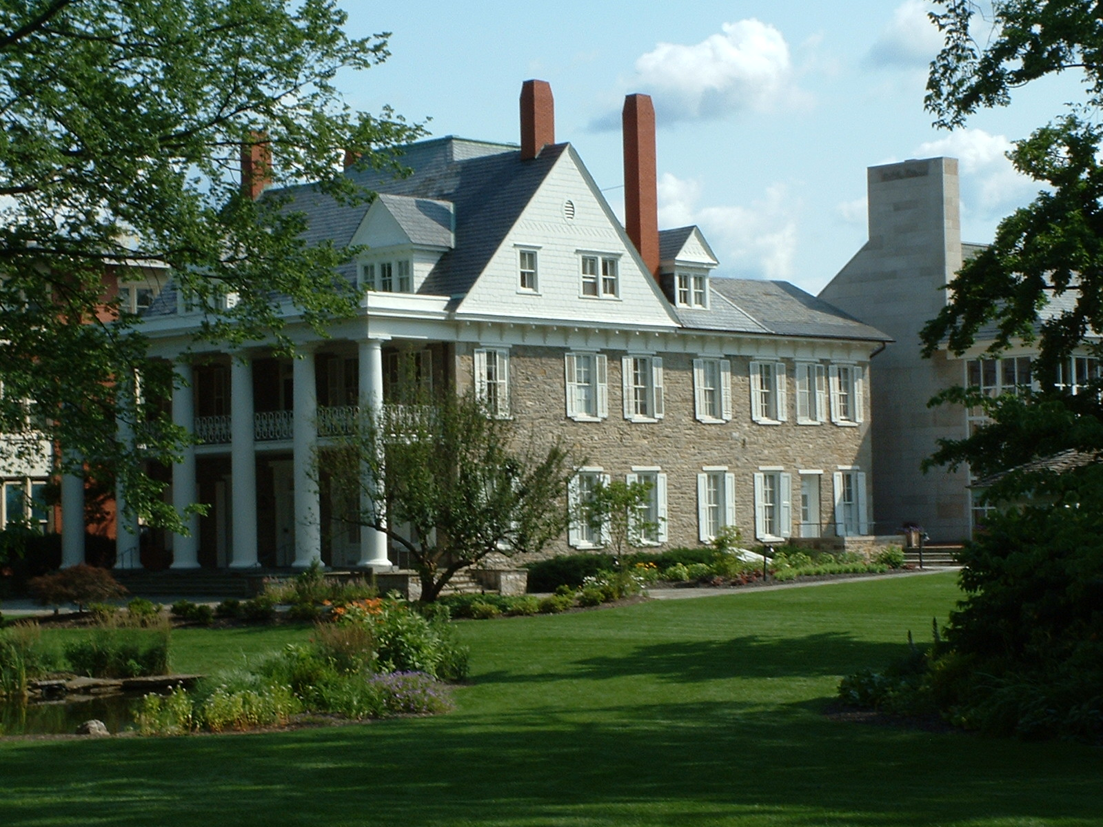 Exterior of the University House at Penn State University, University Park, Pennsylvania.